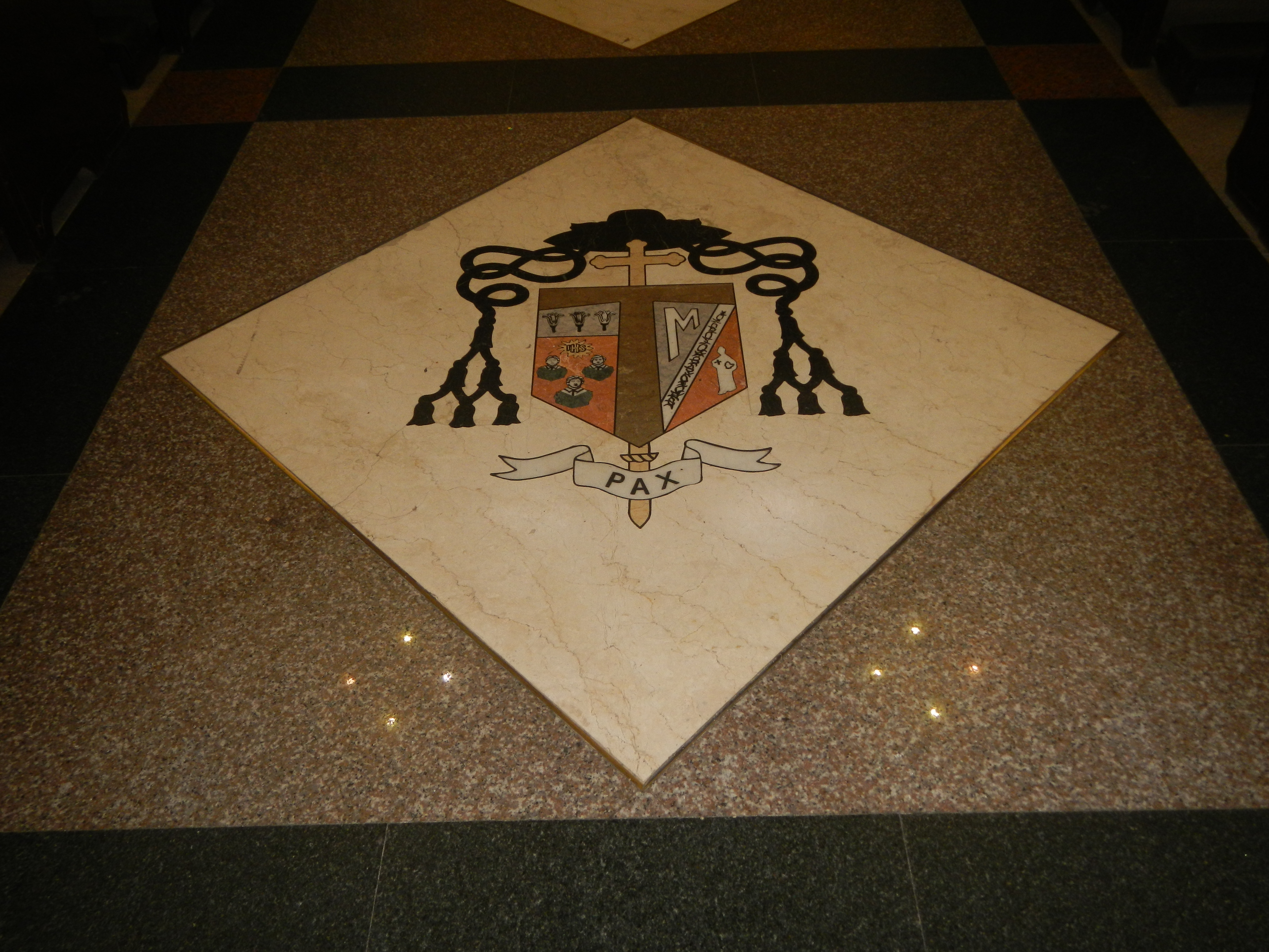 Barangay [1] Poblacion, beside Talisay, Balanga City, Bataan, Bataan Province Interior of the Diocesan Shrine and Cathedral Parish of Saint Joseph, Balanga City and its Category:Sacristy, Santuario, Columbarium, Parish Formation Center, Rectory and Convent (Balanga Cathedral) (along Capitol Drive, to Balanga City, Bataan National Road accessed from and along the Bataan Provincial Expressway also known as the Roman Expressway or the Roman Superhighway, connecting to Olongapo-Gapan Road).